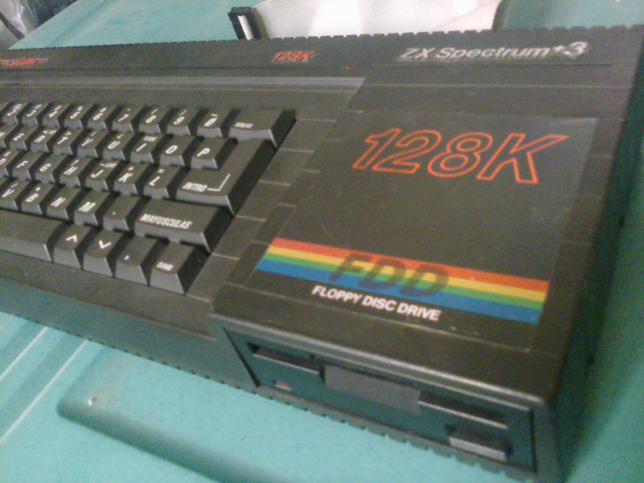 ZX Spectrum 128k +3